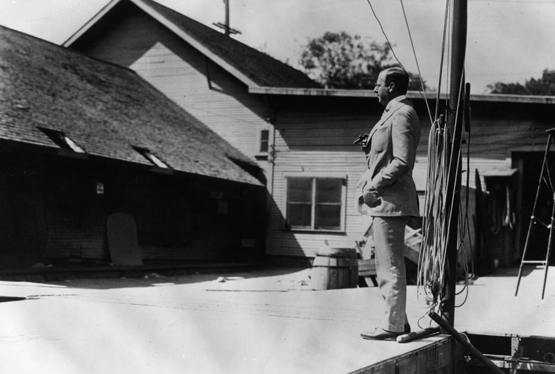 Jesse Lasky standing outside of "The Old Barn" on the Paramount Studios lot. This is the place where he and Cecil B. DeMille started a picture studio in 1912.